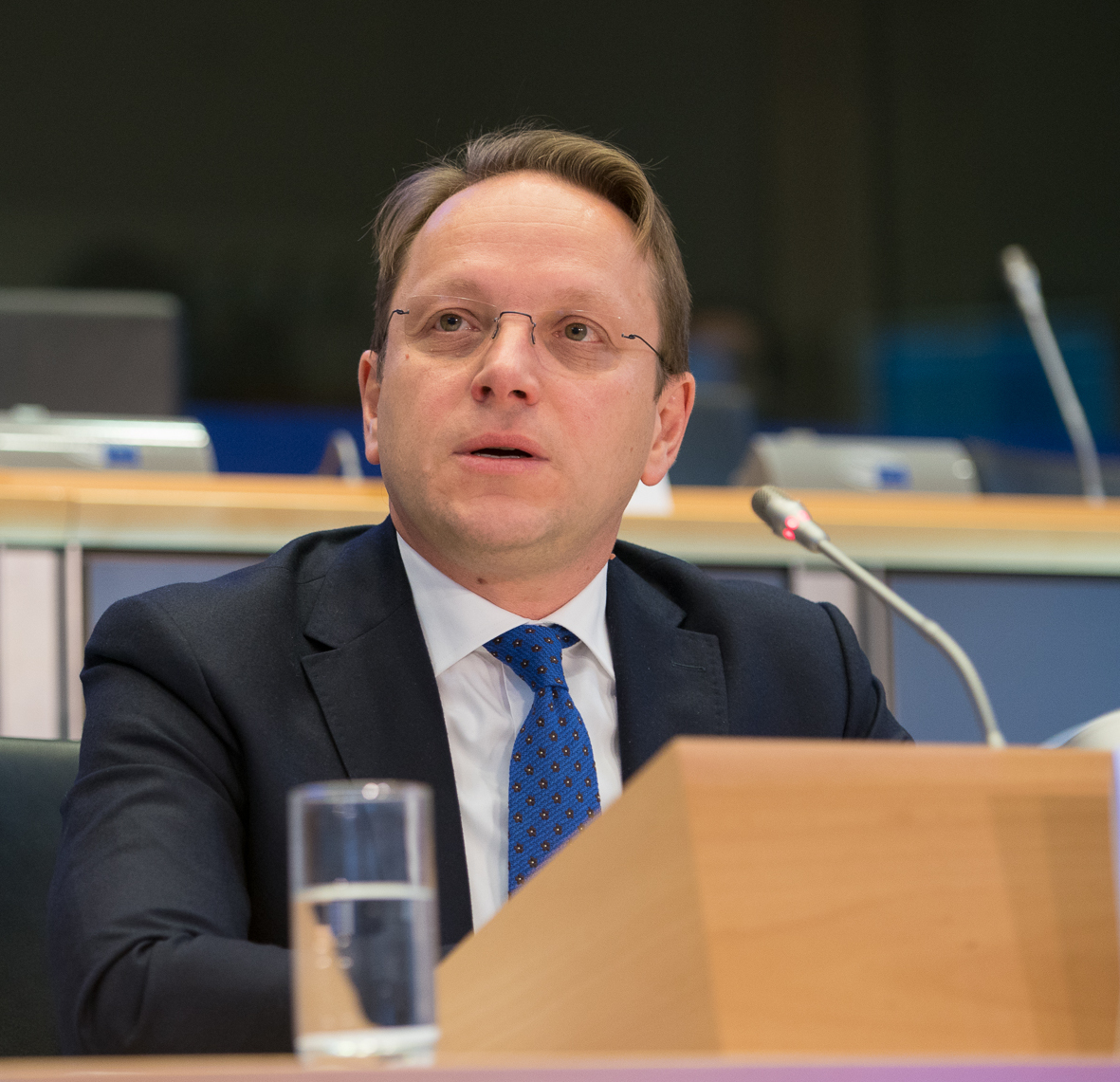 Before the European Parliament can vote the new European Commission led by Ursula von der Leyen into office, parliamentary committees will assess the suitability of commissioners-designate. On 23-26 May, more than 200,000,000 people in 28 EU countries went to the polls to elect members of the European Parliament, giving them a strong democratic mandate, including voting into office the new European Commission and examining the competencies and abilities of its commissioners-designate. Elected members of the European Parliament will also listen to their ideas and will assess their willingness to take concrete actions on the issues that Europeans care about. Each candidate commissioner is invited for a live-streamed, three-hour hearing in front of the committee or committees responsible for their proposed portfolio. The hearings will take place between Monday 30 September and Tuesday 8 October. This photo is free to use under Creative Commons license CC-BY-4.0 and must be credited: "CC-BY-4.0: © European Union 2019 – Source: EP". No model release form if applicable. For bigger HR files please contact: webcom-flickr(AT)